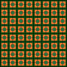 Tartan pattern seen in Don Rosa comics for the Clan McDuck